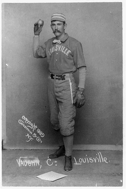 Major league baseball player Harry Francis "Farmer" Vaughn, in uniform for the Louisville Colonels.